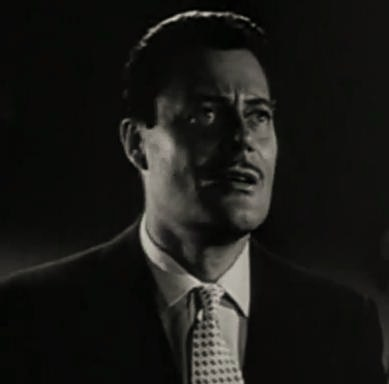 Alexander D'Arcy in Vicki - trailer (cropped screenshot)